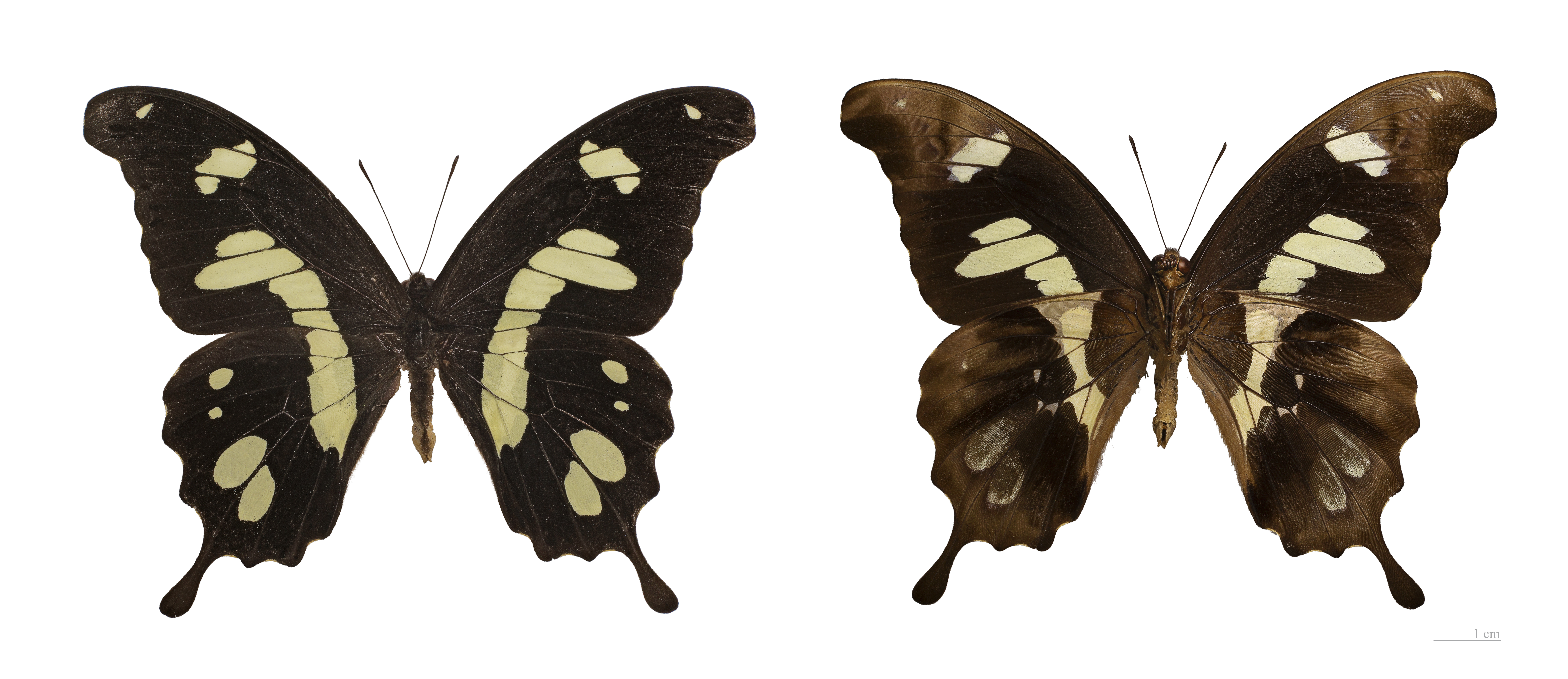 2 views of the same specimen.